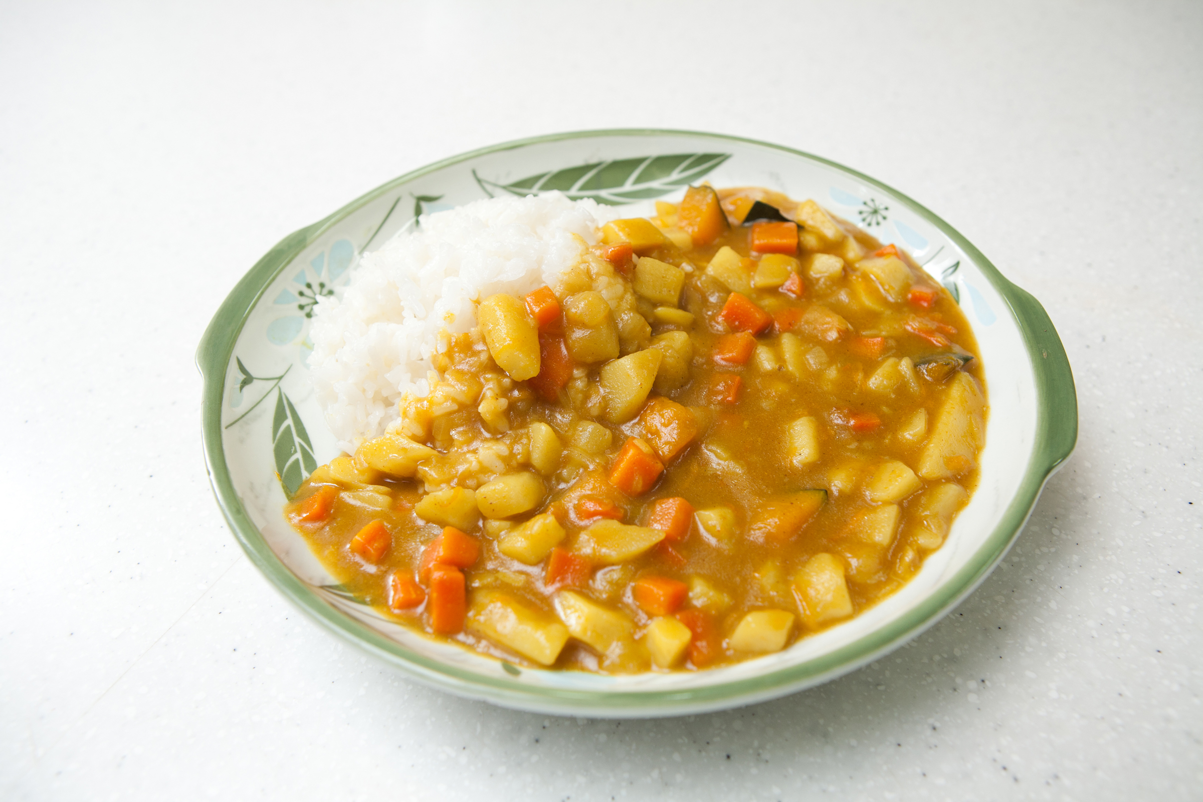 Korean curry rice